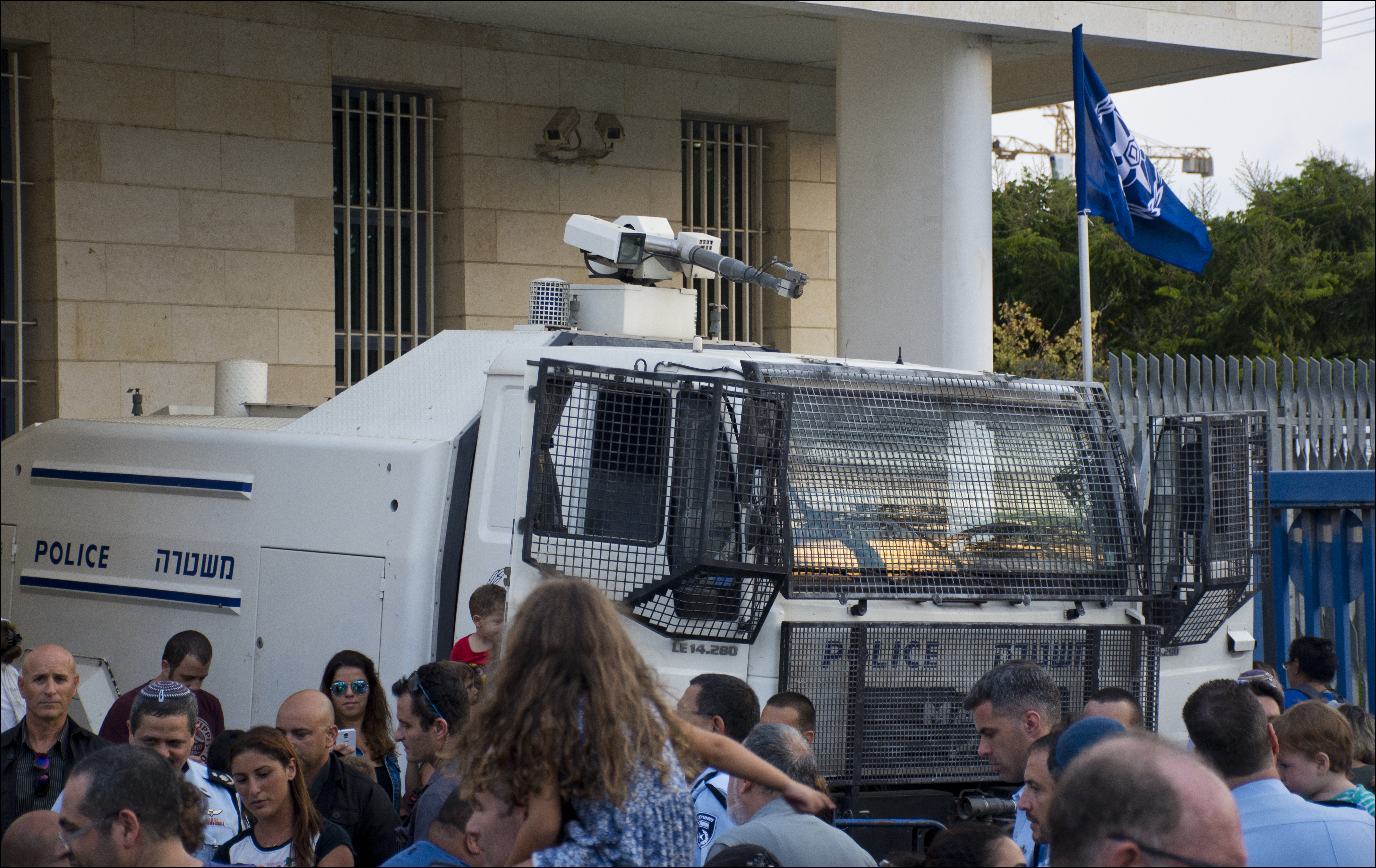 Machtaz (water cannon truck), Israeli Police Open Day in Rishon LeZion